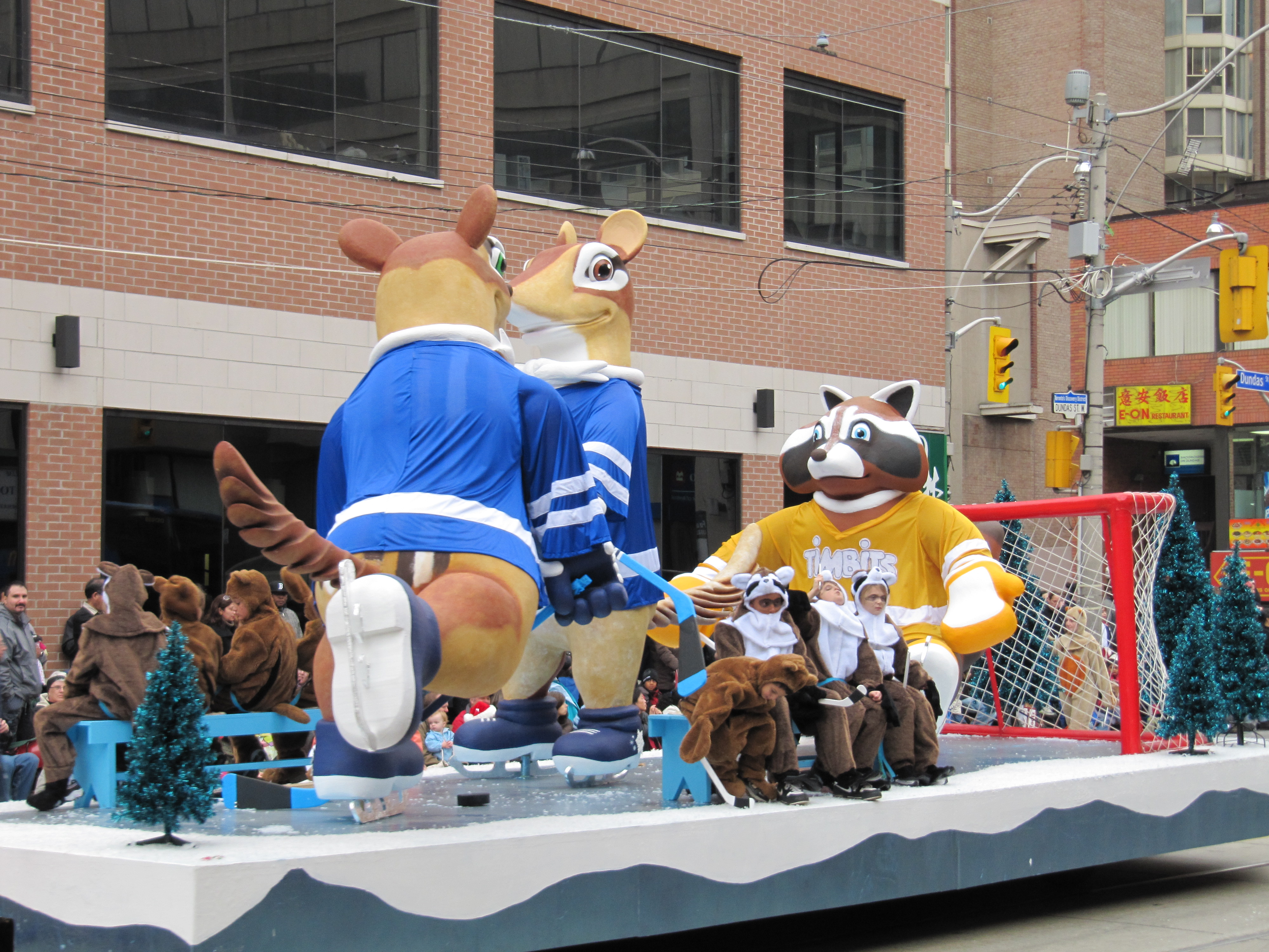 It's the Raccoons vs. the... uh, Deer I guess, in this classic hockey matchup. I think the kid on the left is sick of being benched. 2009 Santa Claus Parade, Toronto.